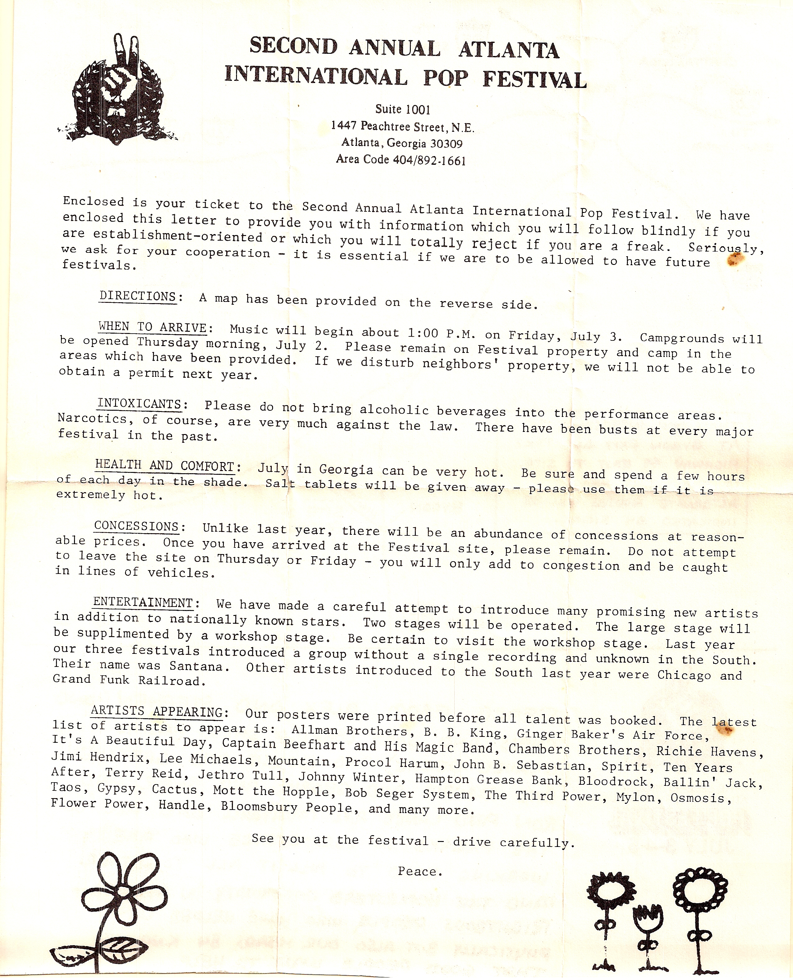 Letter to mail-order ticket buyers for the Second Annual Atlanta International Pop Festival